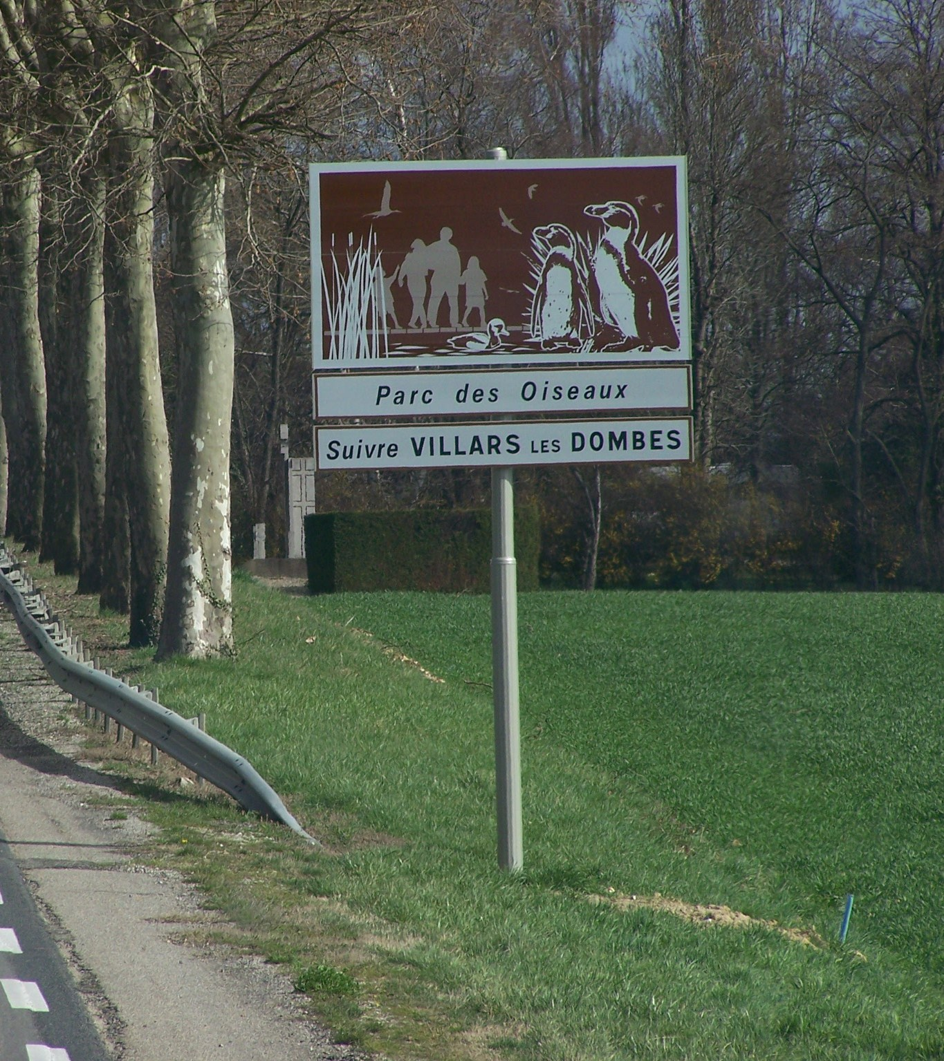 Sign indicating the parc des Oiseaux (birds' park) of Villars-les-Dombes in Ain, France.